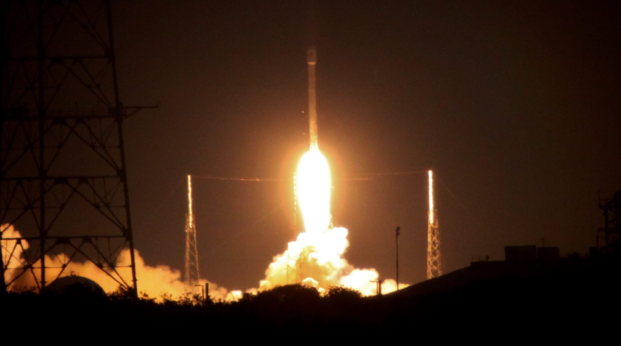 The SpaceX Falcon 9 rocket carrying the SES-8 communications satellite launches from Cape Canaveral SLC-40.